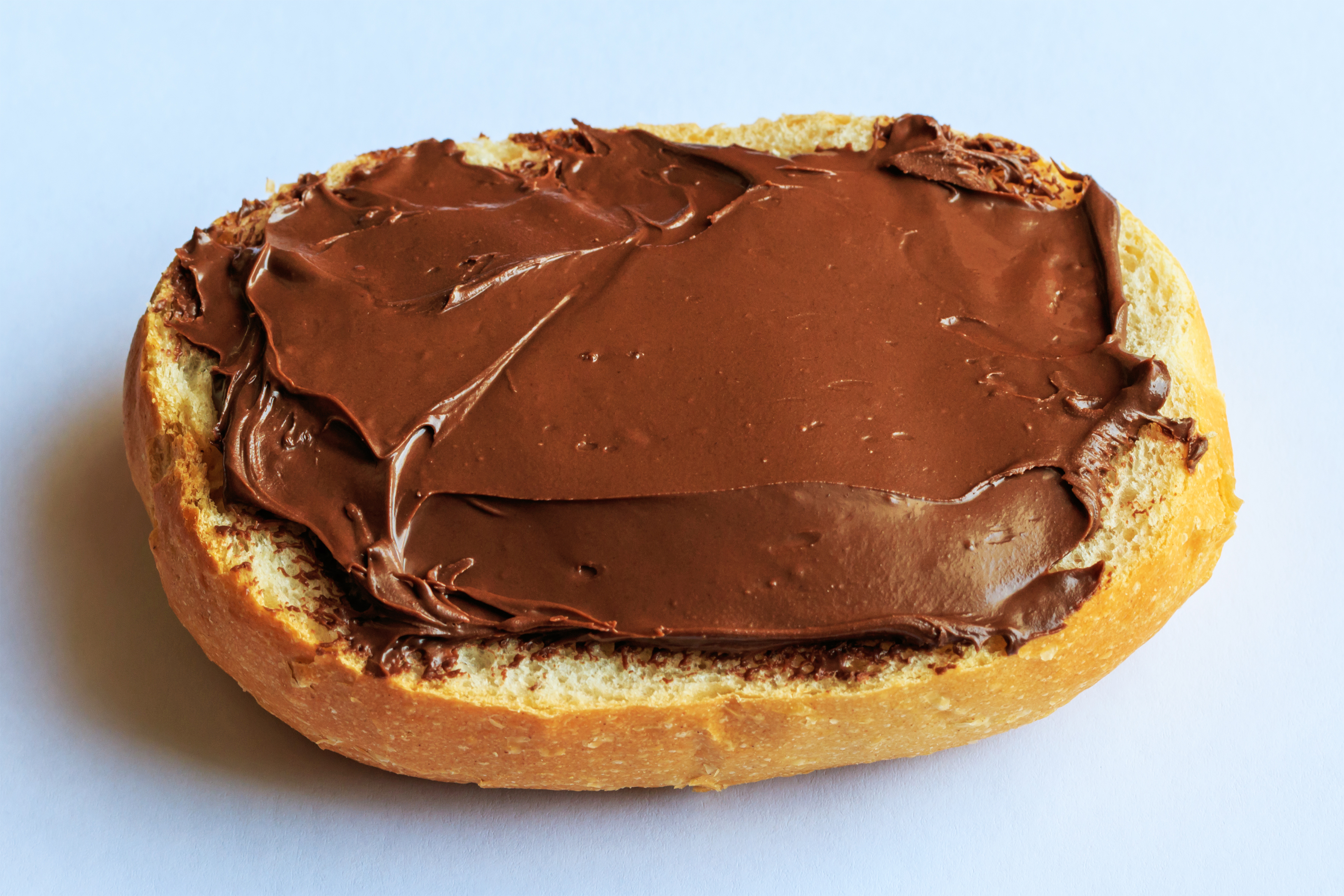 A bread with Nutella (hazelnut/chocolate product by Ferrero, Italy)